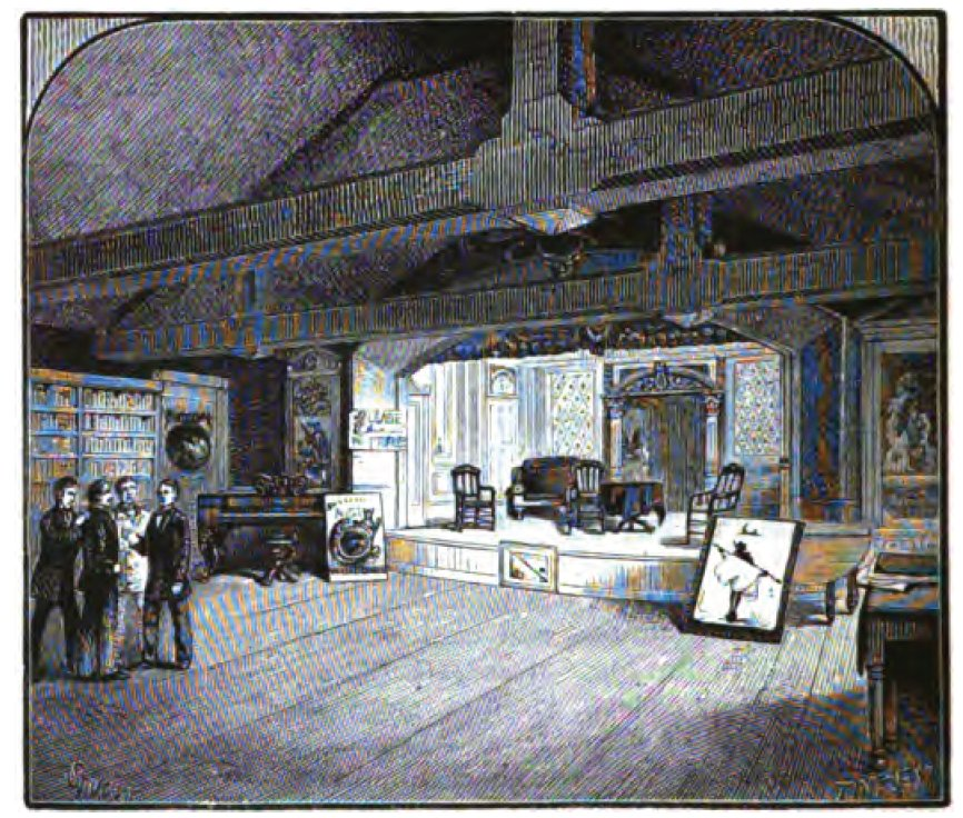 Drawing of the Hasty Pudding Club Stage at Harvard University circa 1876